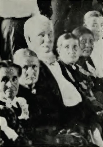 Photograph of Dudley Leavitt, early patriarch of The Church of Jesus Christ of Latter-day Saints, and his wives, circa 1880. Leavitt (1830-1908) was born in Stanstead, Quebec, joined the Mormon exodus westward and eventually was one of the founders of settlements in Washington County, Utah. He is shown in this photograph with several of his wives. Image courtesy of .